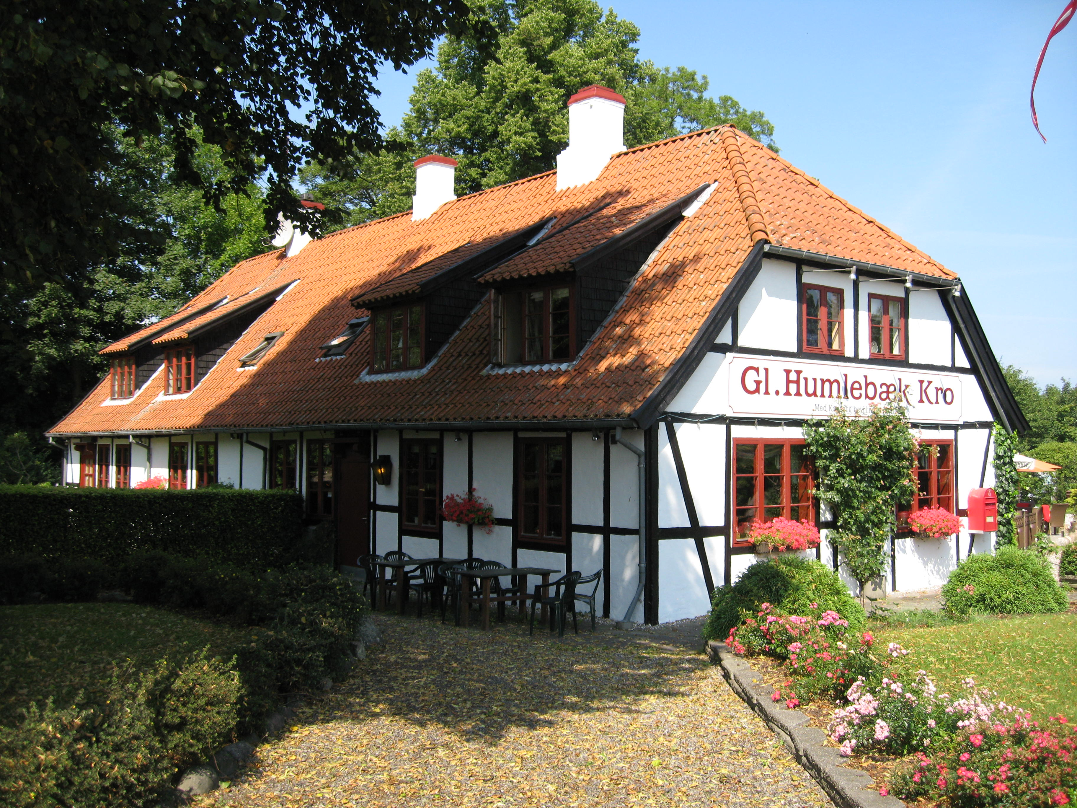 Gl. Humlebæk Kro (Humlebæk Old Inn), estd. 1740.